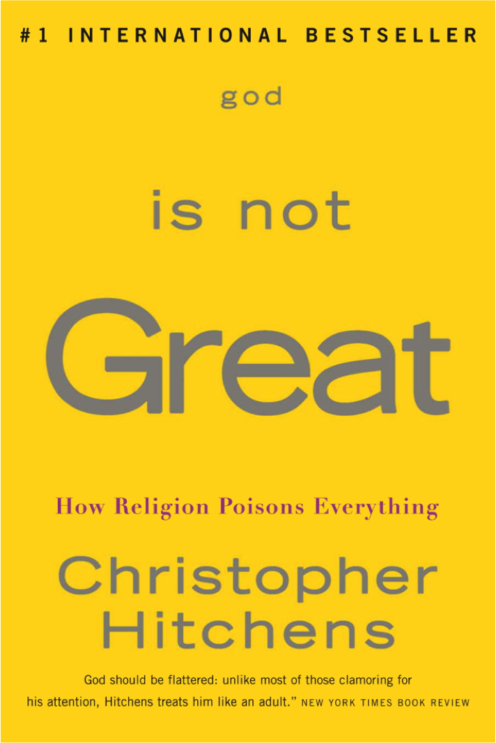 Cover to Christopher Hitchens' God Is Not Great